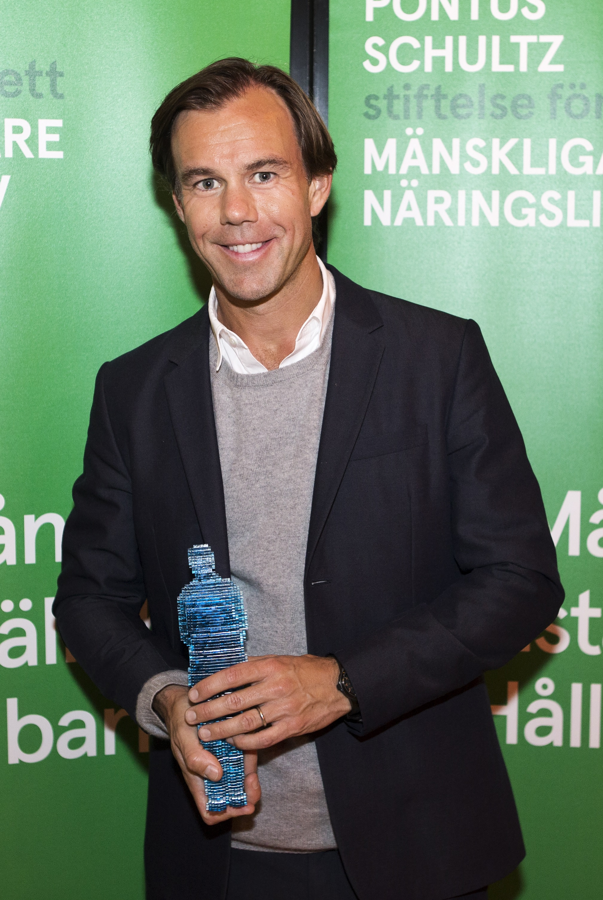 The CEO of Hennes & Mauritz, Karl-Johan Persson receives the Pontus Schultz Award.